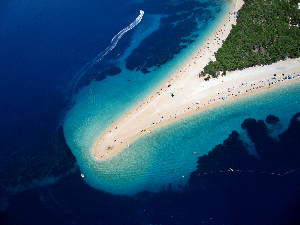 Golden Horn — Bol, island Brač in the Croatia.